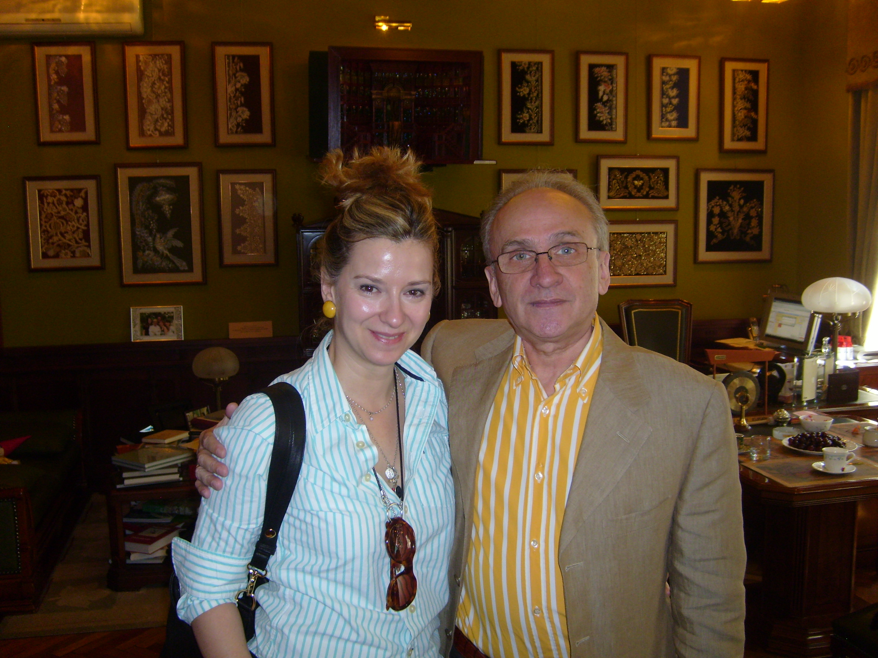 Mirjana Jokovic with Anatoliy Smelyanskiy, Director of the Moscow Art Theater School, in his office, June 24, 2010.